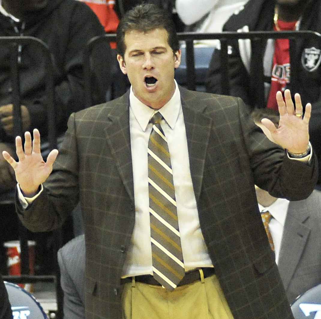 New Mexico Lobos head men's basketball coach Steve Alford at the game against the USD Toreros on December 10, 2008.